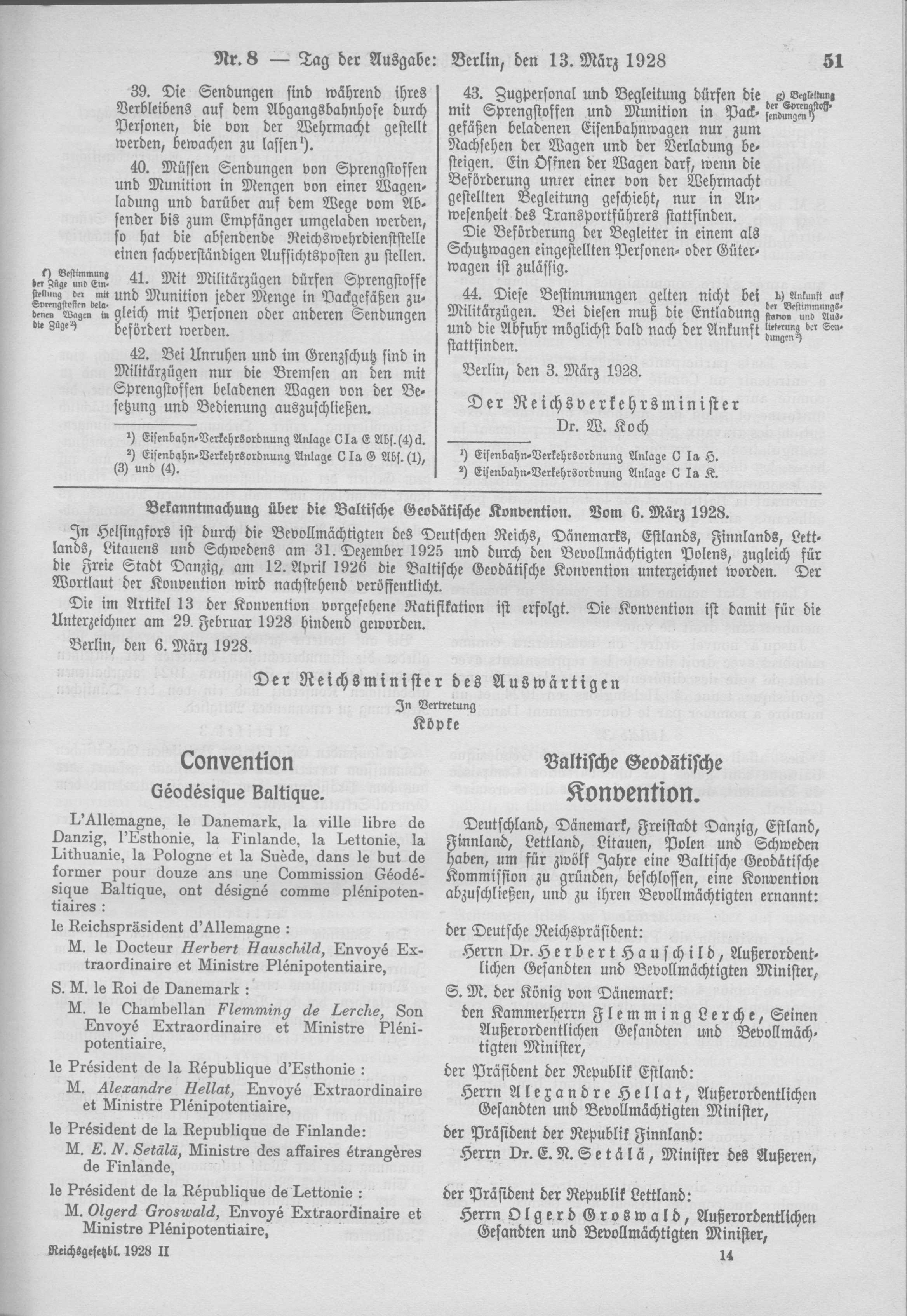 Scan from the Imperial Law Gazette of Germany, 1928, part 2